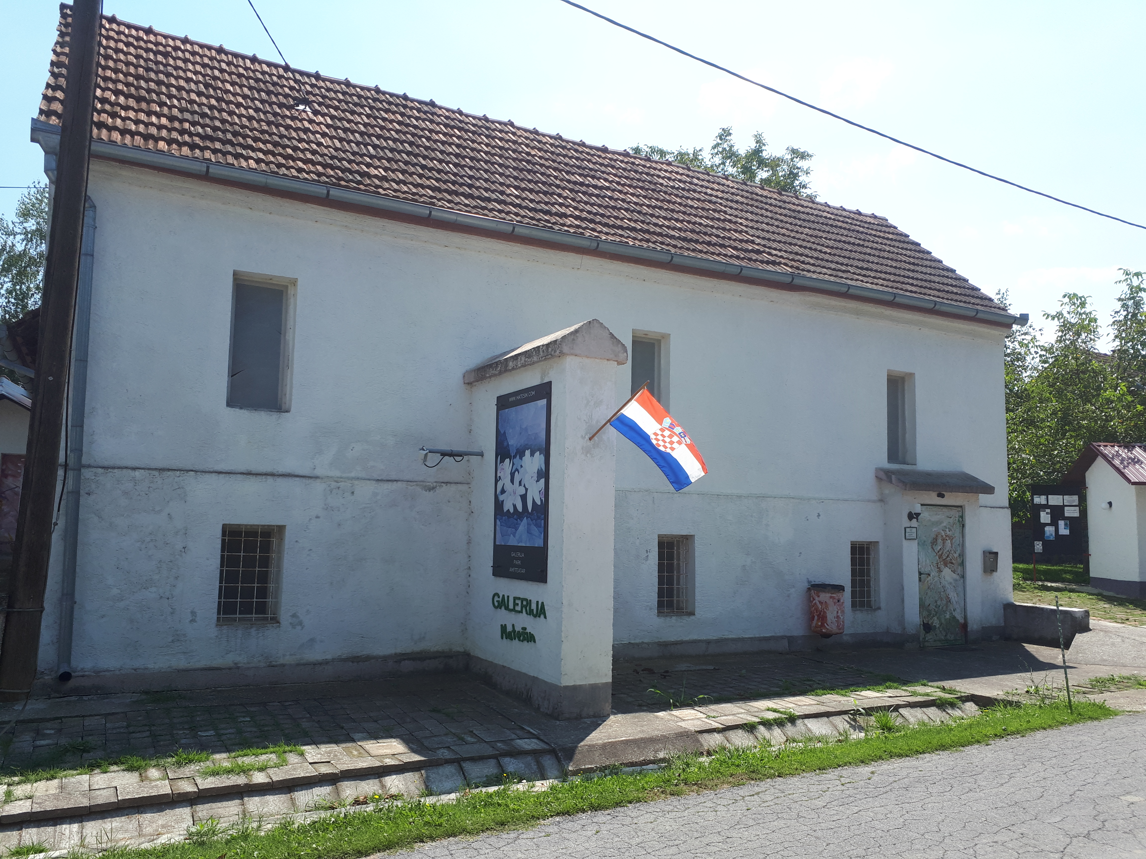 kuca galerije